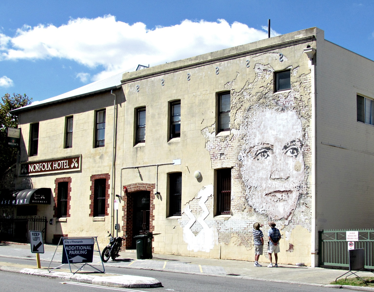 Vhils (Alexandre Farto) Artwork sculpted for the Fremantle 2013 Street Arts Festival Note: Australia has a Freedom of Panorama that includes sculptures and buildings but excludes paintings. My understanding is that this is a sculpture or streetart and not a "painting" per se